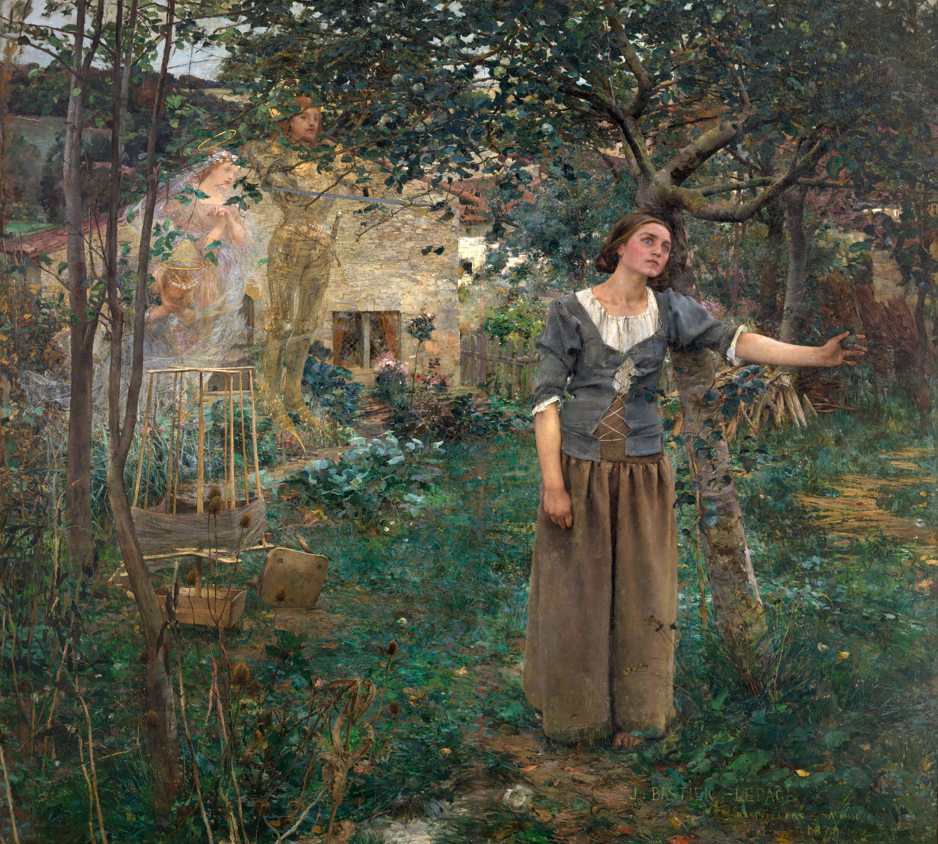 When after the Franco-Prussian War of 1871, Joan of Arc's homeland of Lorraine was once again held captive by invaders, the people of Lorraine rallied around the symbol of Joan of Arc who four hundred years earlier had rallied the French army against the English invaders. As one of the Lorraine natives inspired by the sudden relevance of Joan of Arc's image, Jules Bastien-Lepage in 1875 started sketches for this life-sized portrait of Joan of Arc showing her at the moment that she received her first call to arms against the English invaders of 1424. Bastien-Lepage captures the suddenness of the call by showing the overturned chair from which she has just sprung at her spinning wheel behind her together with the wet edge of her dress that has just brushed through the dew from the weeds in the garden at the back of her parents' house. The 2.5 meter (8 feet) high painting hangs in the Metropolitan Museum of Art, New York. The enormous painting was achieved by joining two vertical canvas panels and frames along the vertical line through the right edge of the house in the background. The almost transparent Saints Michael, Margaret, and Catherine can be seen hovering in the background against the house awaiting her decision.